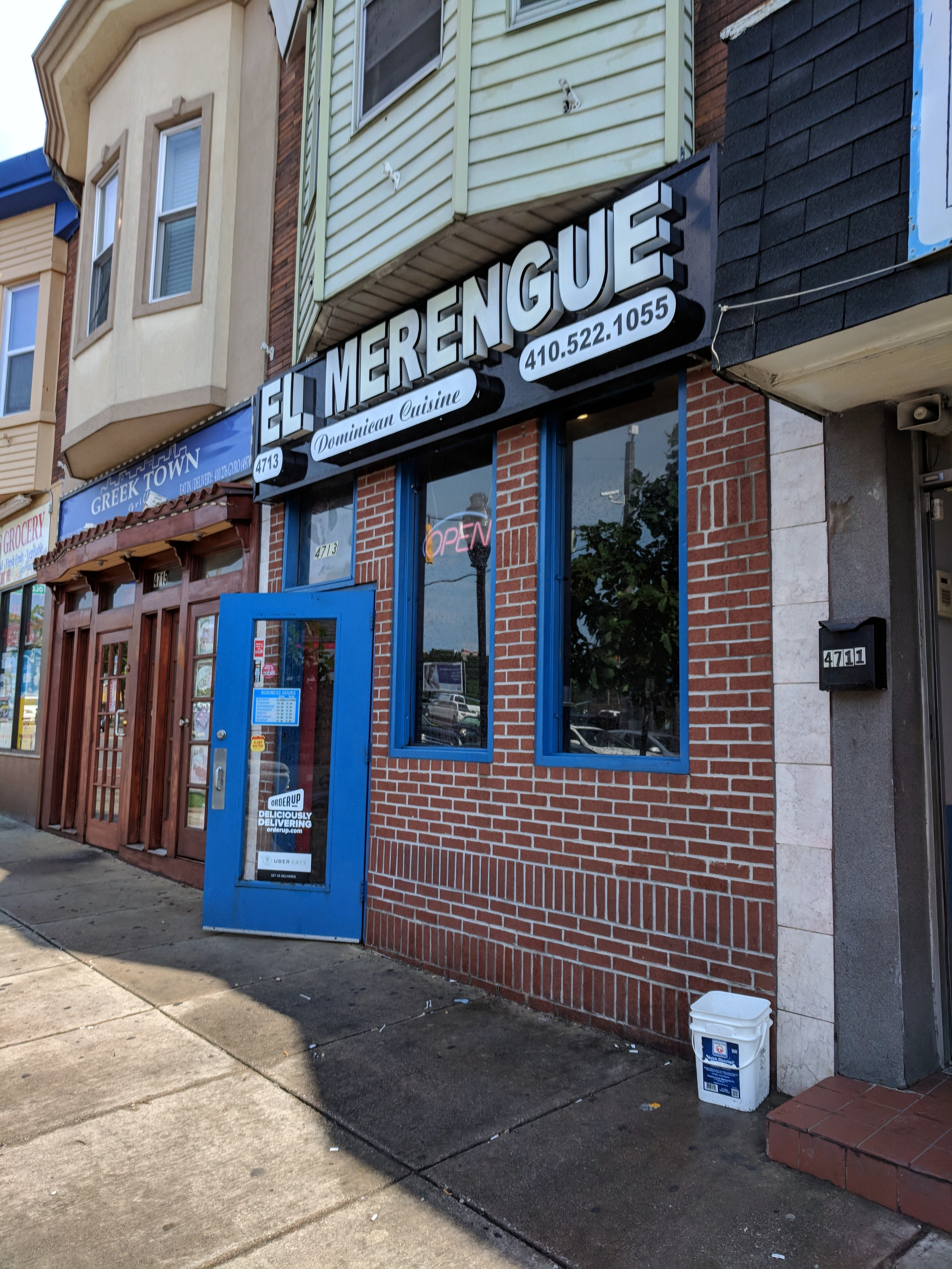 El Merengue Restaurant, a Dominican restaurant in Greektown, Baltimore, Maryland.